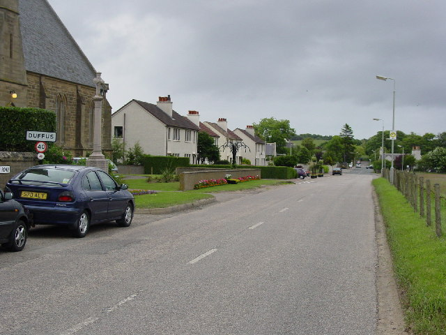 Duffus Original description: Duffus Entering the village of Duffus from the West